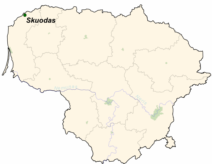 Skuodas on the map of Lithuania